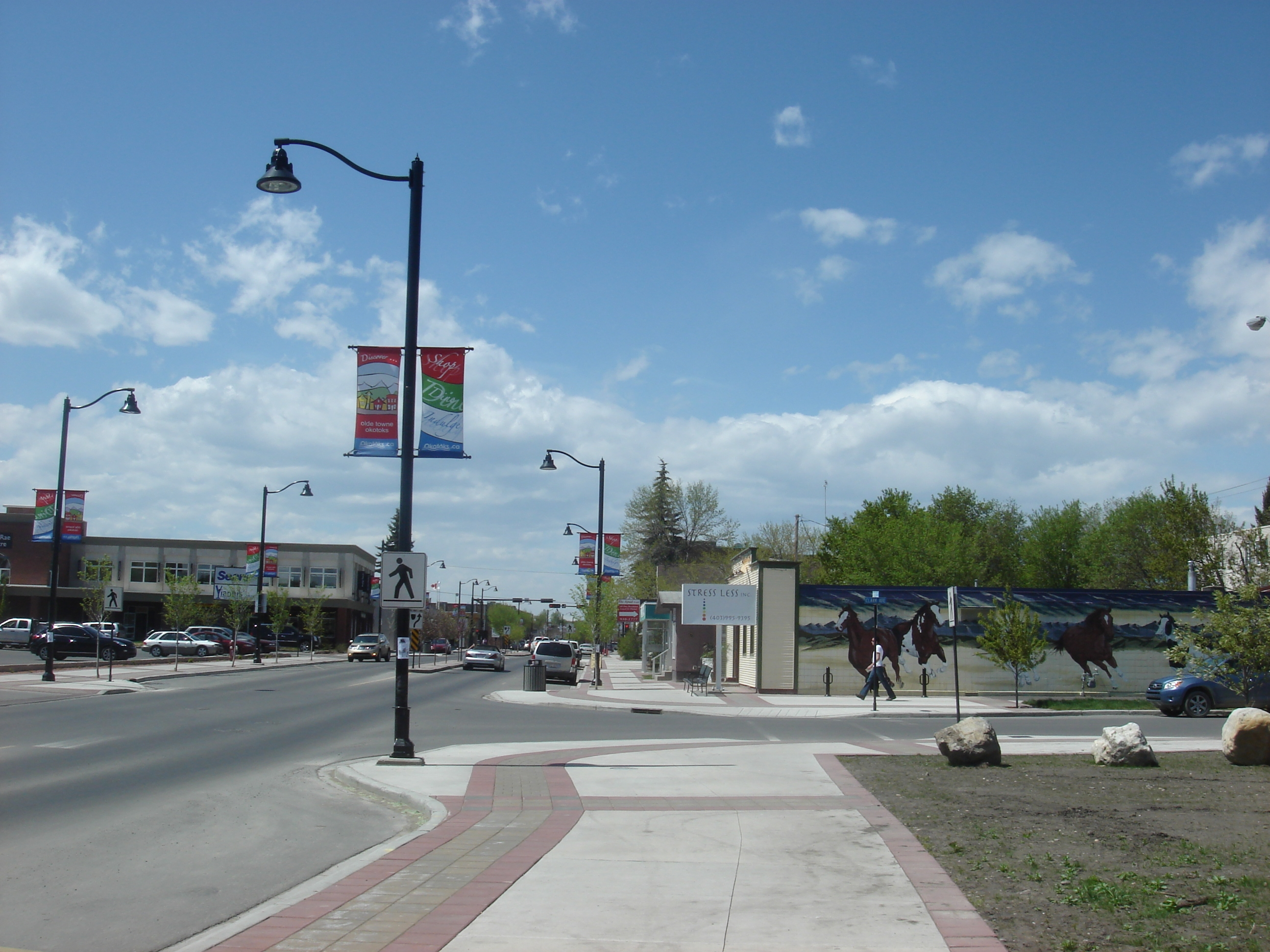 Main street Okotoks, Alberta, Canada